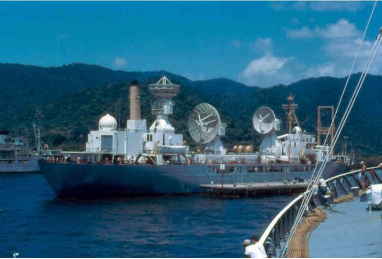 }This photo contains images of the USNS H H Arnold and the H S Vandenberg, two ARIS ships which were placed into operation early in 1964. (comments of the author of the photo).